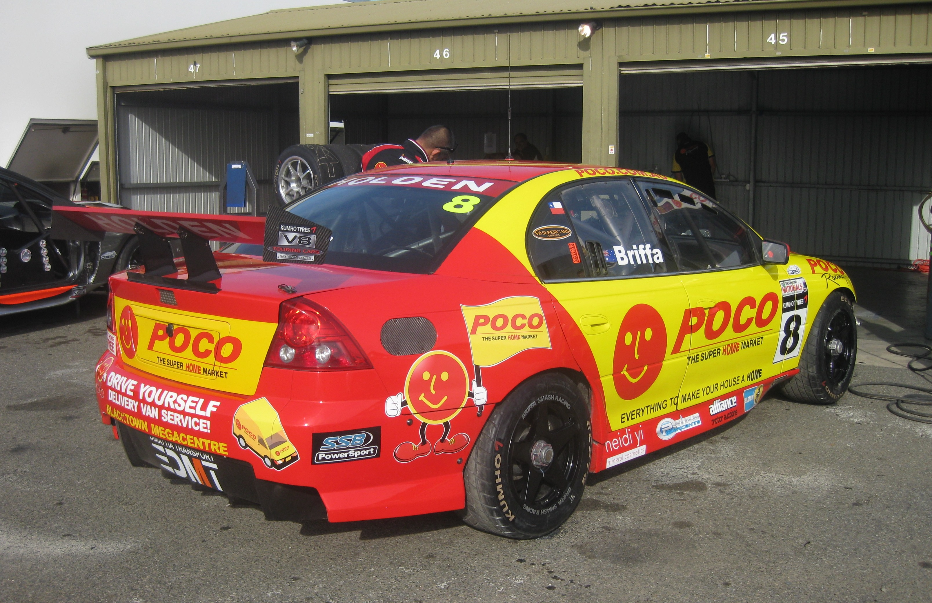 The Holden Commodore (VY) of Steve Briffa at Mallala Motor Sport Park on 27 April 2014. Briffa was contesting Round 1 of the 2014 Kumho Tyres Australian V8 Touring Car Series.